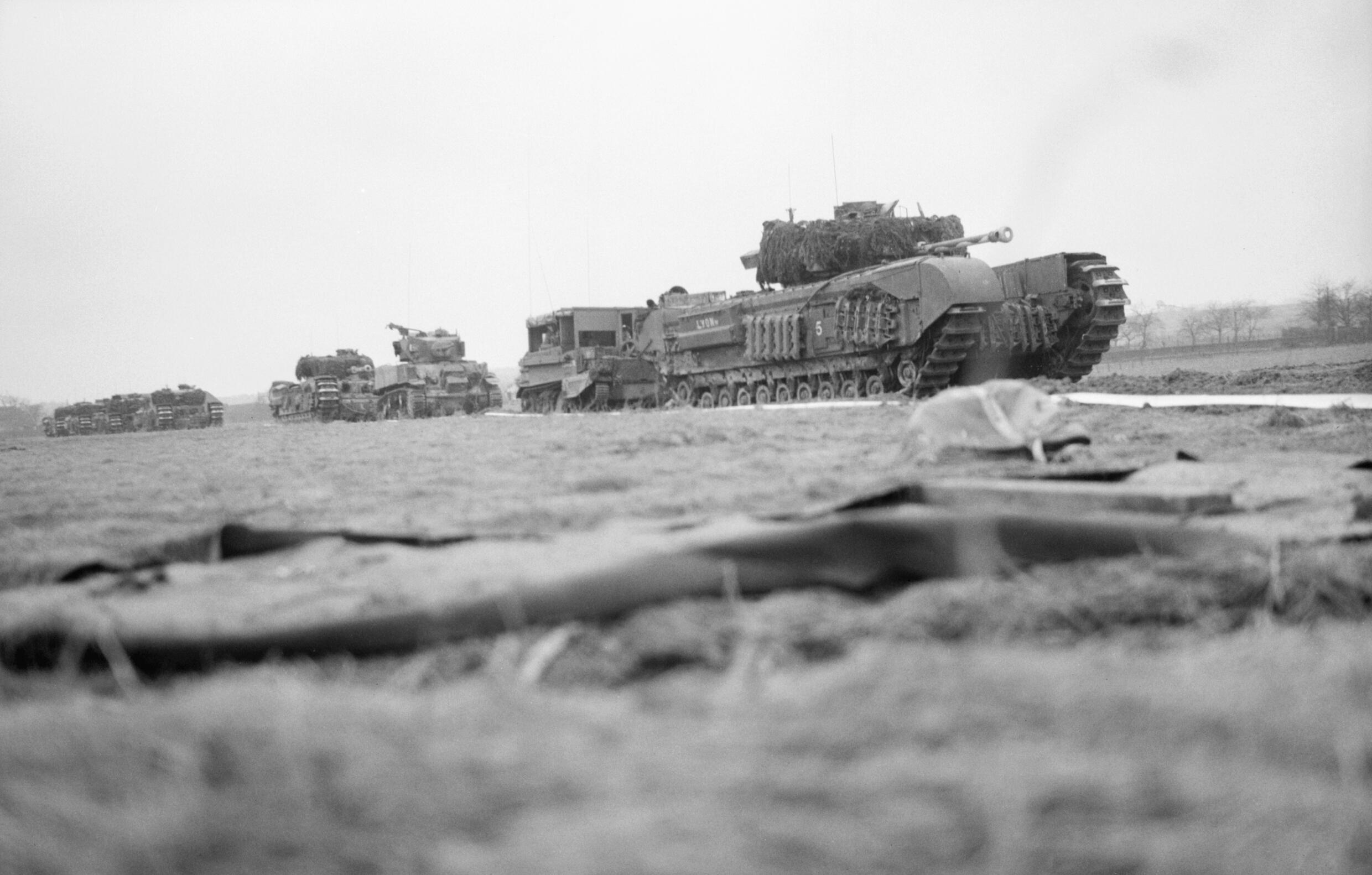 A column of Churchill tanks and other vehicles at the start of Operation 'Veritable', NW Europe, 8 February 1945. Churchill tanks and other vehicles at the start of Operation 'Veritable', 8 February 1945.